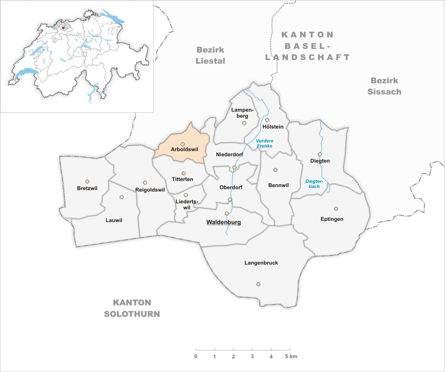 Municipality Arboldswil